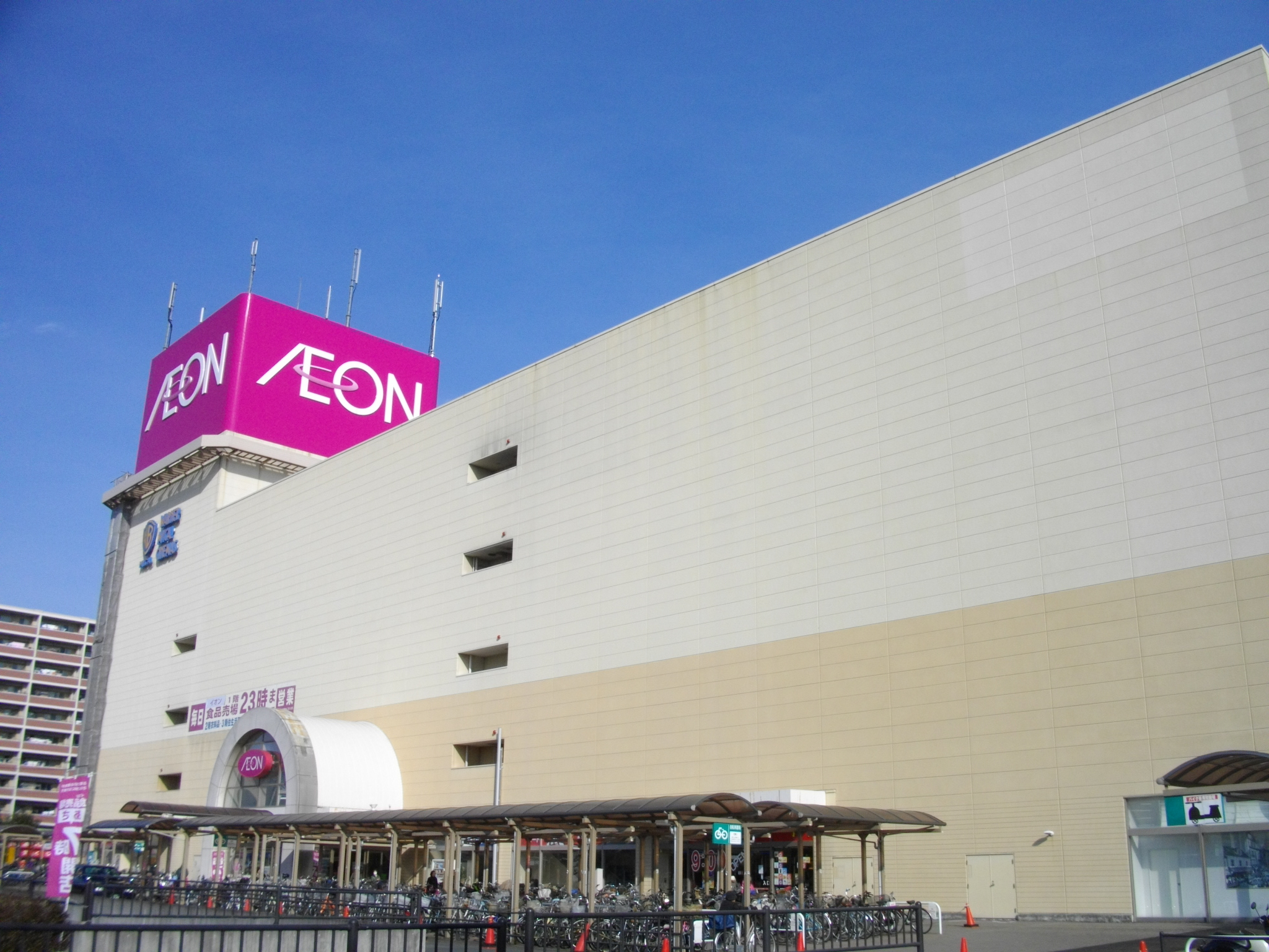 AEON Omiya